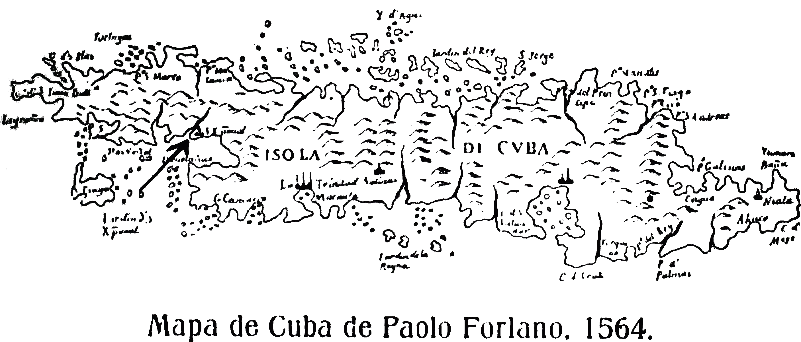 1564 map of Cuba